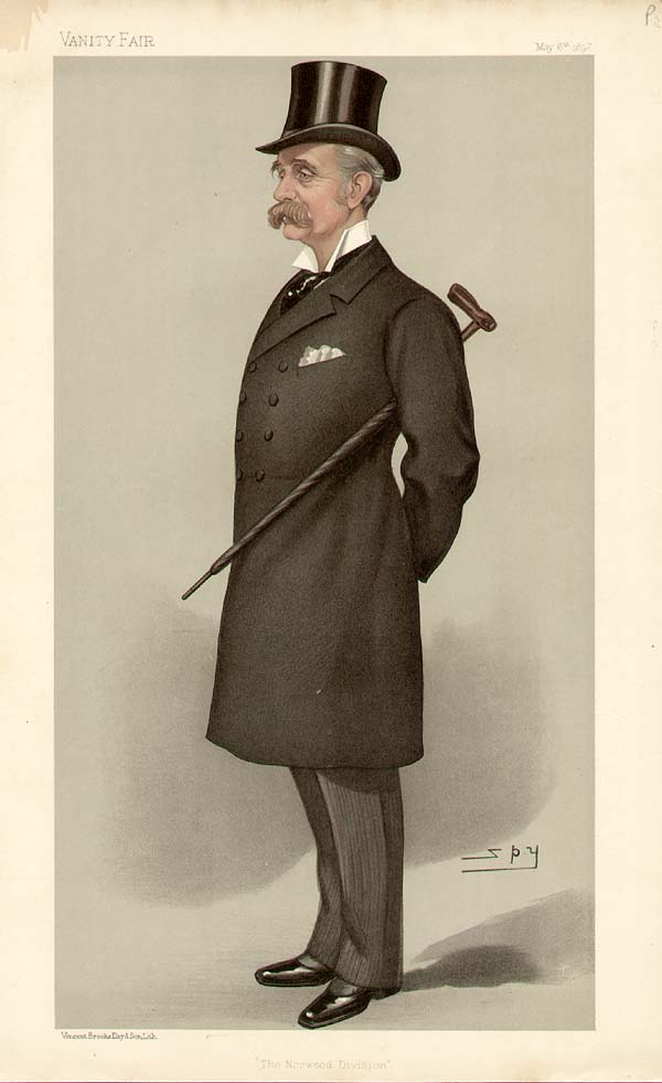 Caricature of Mr Charles Ernest Tritton MP. Caption read "The Norwood Division".